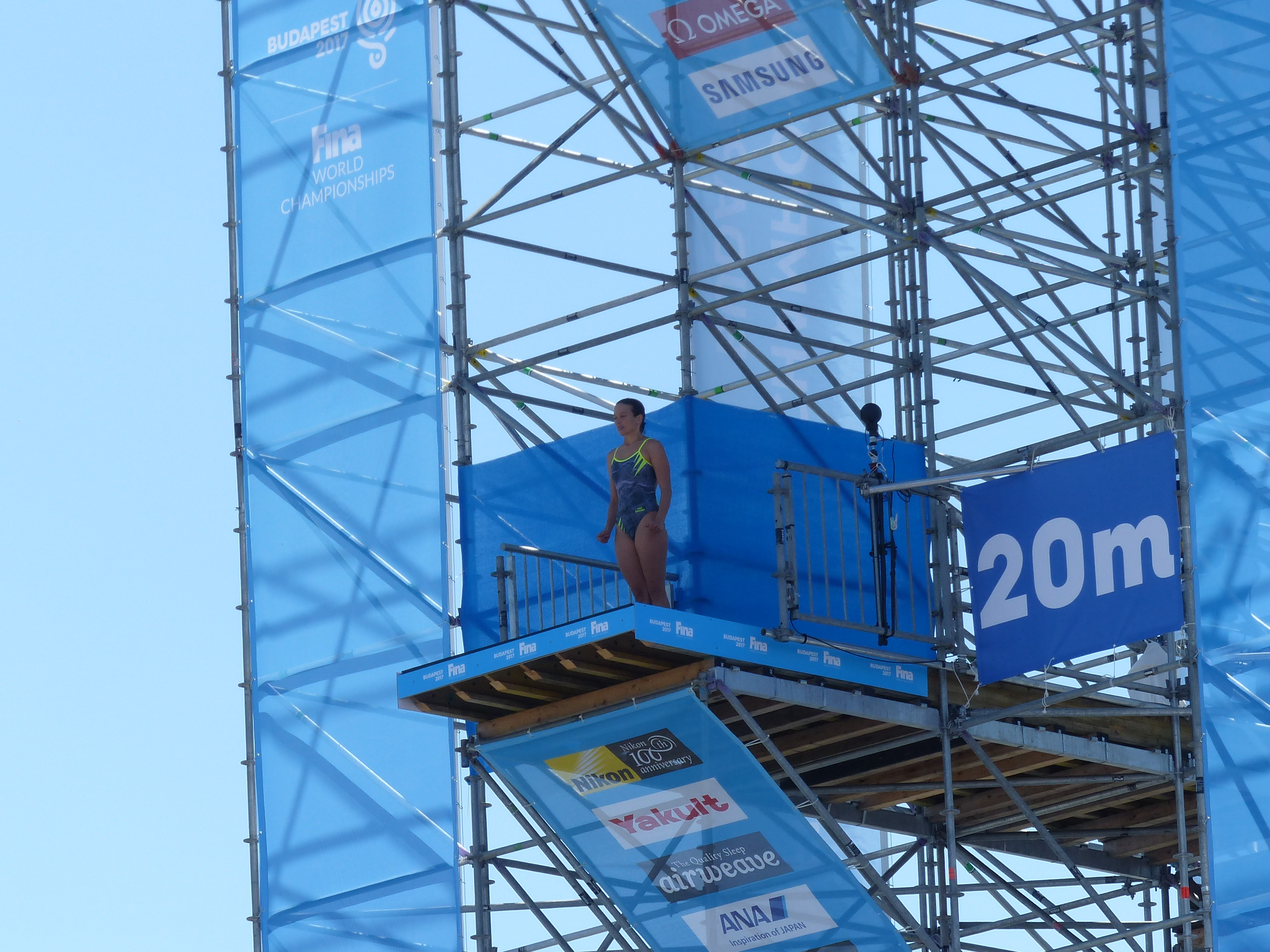 Anna Bader, GER, 283.40. Taken on Saturday, 29th of July, 2017. 2017 World Aquatic Championships, Budapest, Hungary, Central Europe. Women’s 20m High Dive Final Resultsː Rhiannan Iffland, AUS, 320.70, Adriana Jimenez, MEX, 308.90, Yana Nestsiarava, BLR, 303.95, Tara Tira, USA, 299.50, Anna Bader, GER, 283.40